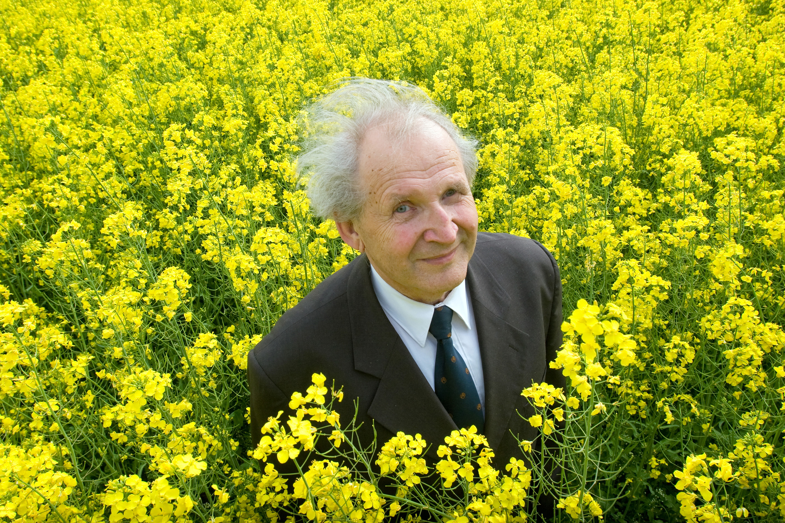 Estonian astrophysicst Arved Sapar near Tartu Observatory.